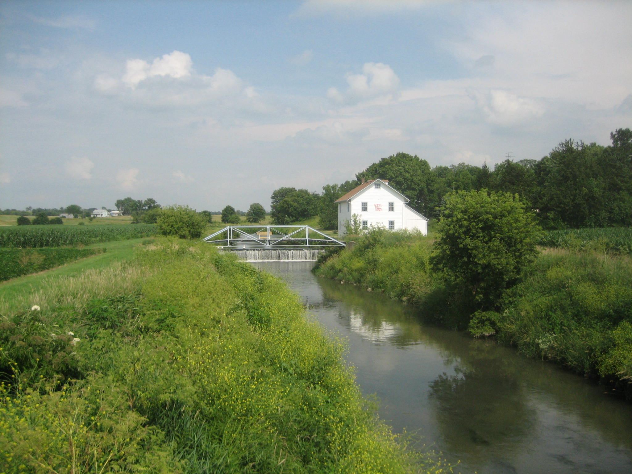 Malvern Roller Mill, north of Morrison, Illinois. U.S. National Register of Historic Places